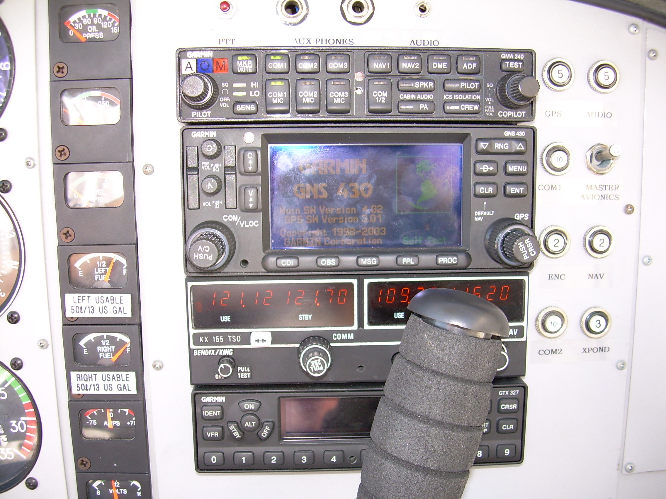 Avionics and center console of the AMD Alarus. Shown here is a Garmin GNS 430 GPS, as well as a Bendix/King NAV/COM.